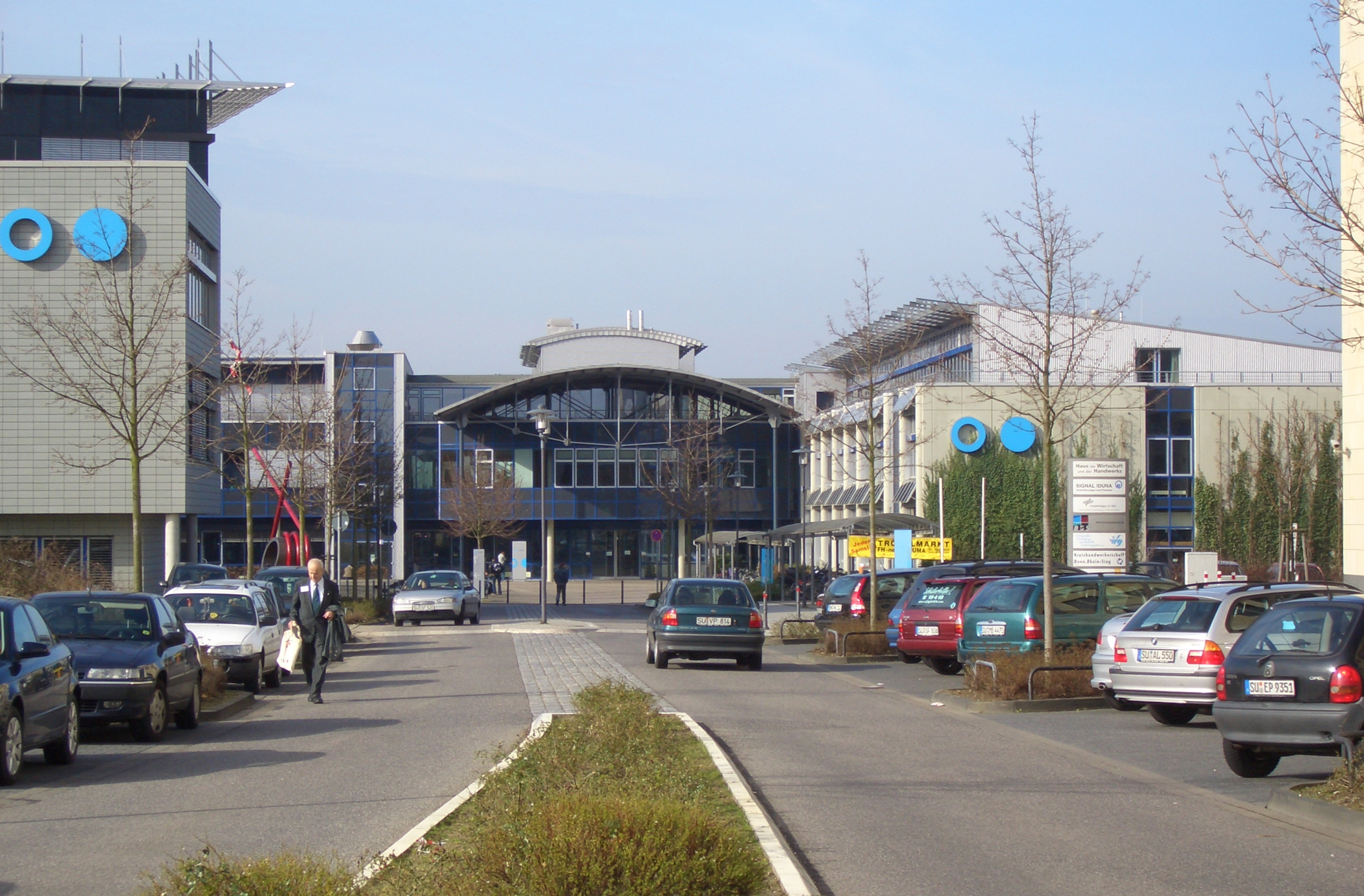 Photo of University of Applied Sciences Sankt Augustin, Germany.